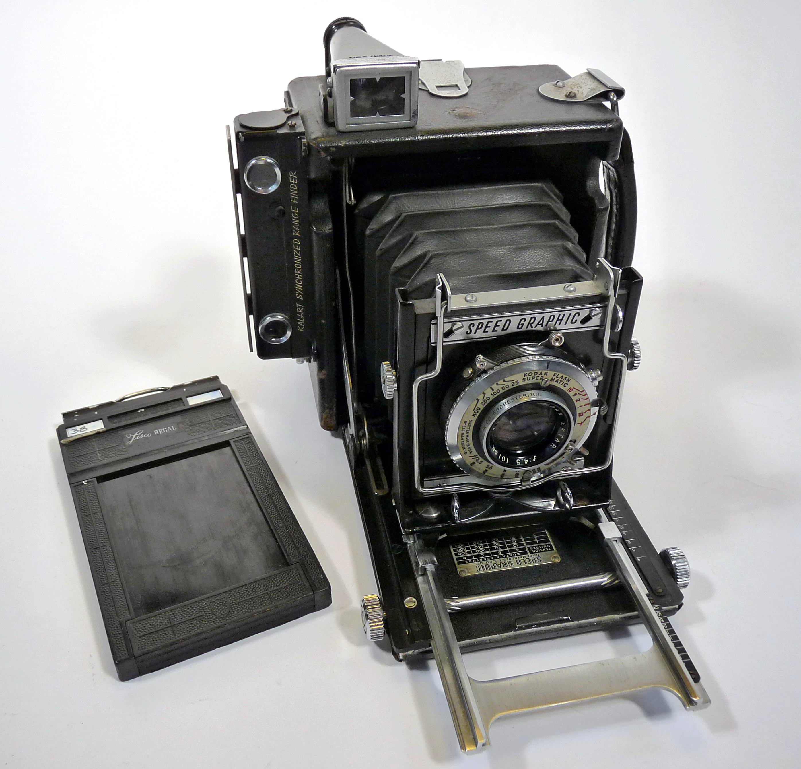 Graflex Speed Graphic format: 2.25x3.25 medium format, press camera circa 1939-1946, Camera Owner: Caroline Graf condition: good serial ?? lens: Ektar F4.5, 101mm, focal plane shutter Reference cites